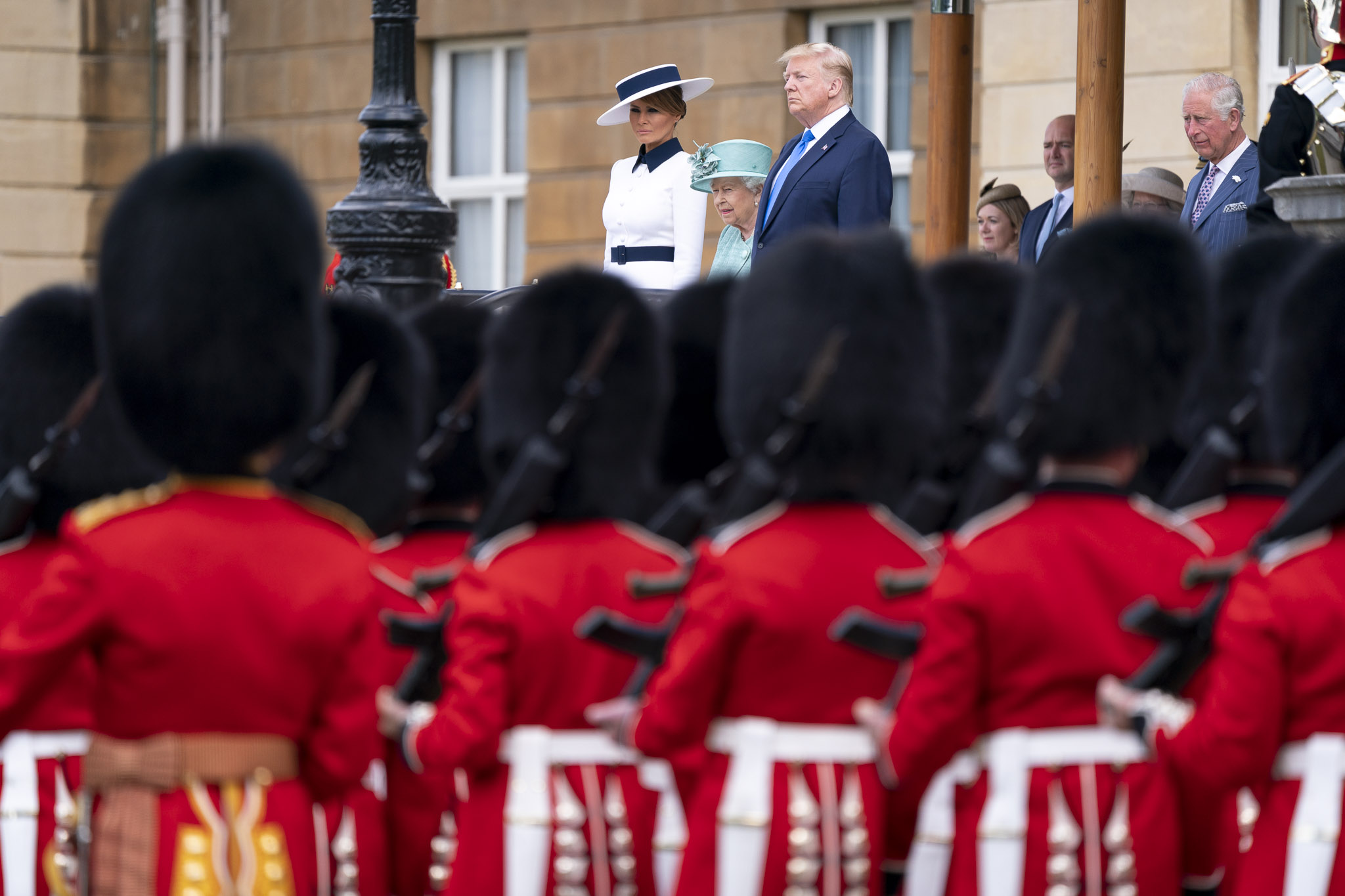 President Donald J. Trump, First Lady Melania Trump and Britain’s Queen Elizabeth II attend a welcome ceremony at Buckingham Palace Monday, June 3, 2019, in London. (Official White House Photo by Shealah Craighead)